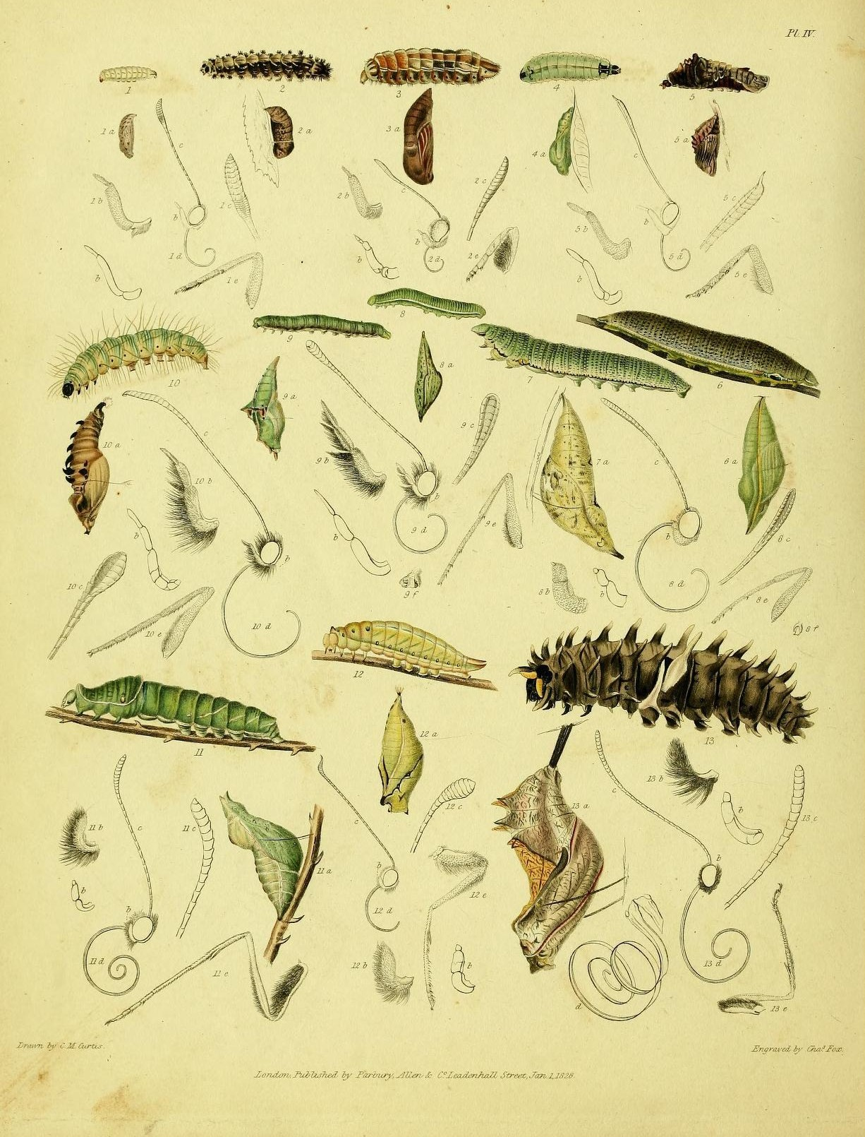 Thomas Horsfield and Frederic Moore. A catalogue of the lepidopterous insects in the Museum of the Hon. East-India Company. Alternative Title:Catalogue of the lepidopterous insects in the Museum of Natural History at the East-India House. Multiple dates 1857 - 1859; 1857-1859 volume 2 Plate 4 (not as file)text figure 1 Lycaena aelianus synonym for Jamides celeno aelianus (Fabricius, 1793) figure 2 Thecla jarbas synonym for Panara thisbe Fabricius 1781 figure 3 Thecla appidanus lapsus synonym for Flos apidanus (Cramer, [1777]) figure 4 Thecla narada Horsfield, [1828] synonym for Amblypodia narada Horsfield, [1829] figure 5 Thecla longinus synonym for Tajuria cippus longinus (Fabricius, 1798) figure 6 Colias scylla synonym for Catopsilia scylla (Linnaeus, 1763) figure 7 Colias glaucippe synonym for Hebomoia glaucippe (Linnaeus, 1758) figure 8 Terias hecabe synonym for Eurema hecabe (Linnaeus, 1758) figure 9 Pontia coronis synonym for Cepora nerissa coronis (Cramer, 1775) figure 10 Pontia belisama synonym for Delias belisama (Cramer, 1779) figure 11 Papilio arjuna synonym for Papilio paris arjuna Horsfield, 1828 figure 12 Papilio agamemnon synonym for Graphium agamemnon (Linnaeus, 1758) figure 13 Papilio amphrisius synonym for Troides amphrysus (Cramer 1779)